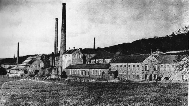 Old photo of Shotley Grove Mill. Taken about 1880